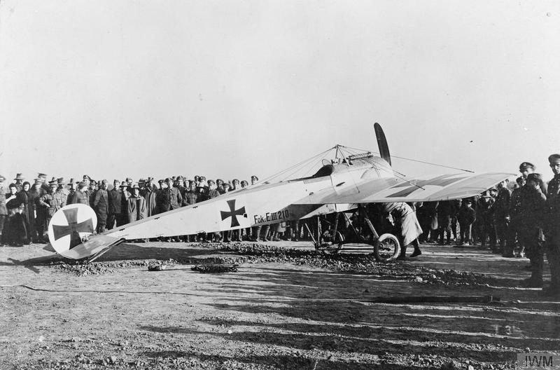 German Aircraft of the First World War Fokker E.III single-seat fighter monoplane, serial number 210/16. Aircraft captured by No. 11 Wing RFC.